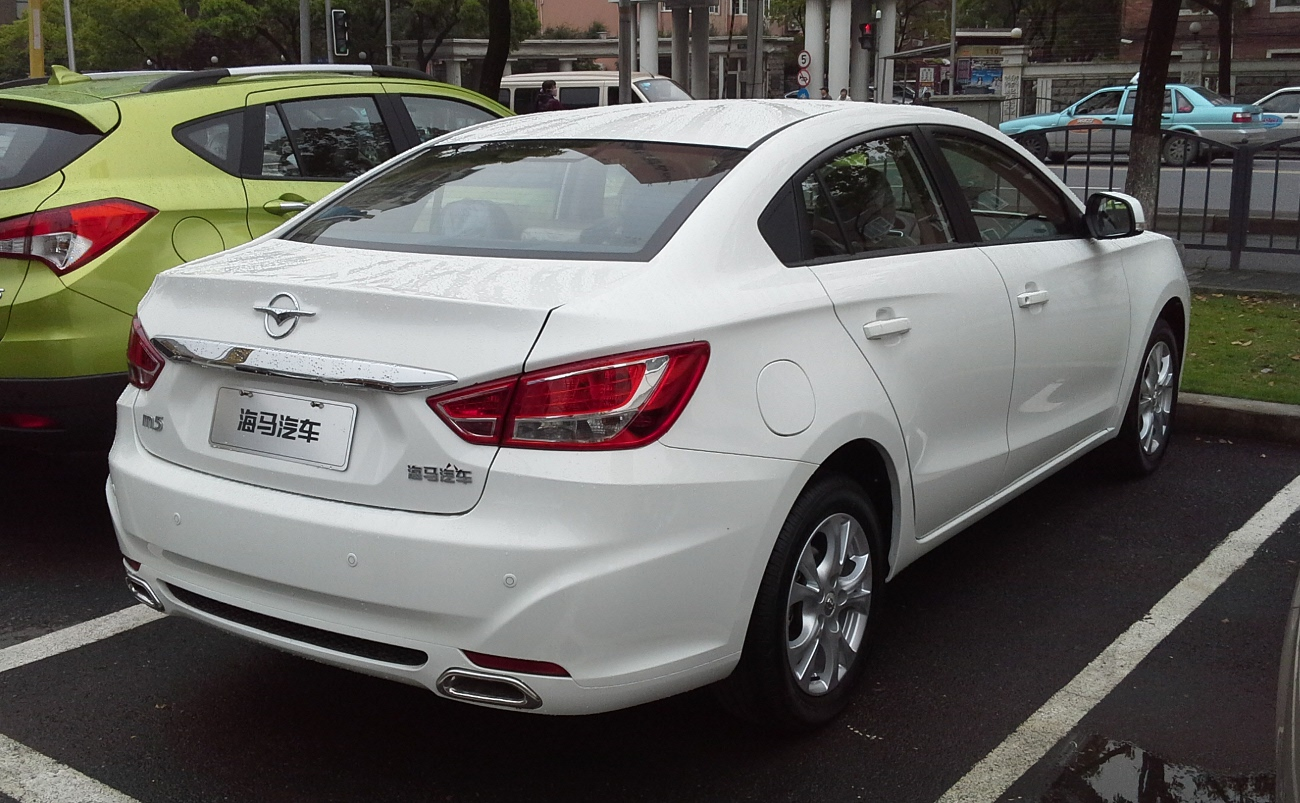 Haima M5 photographed in Shanghai, China.